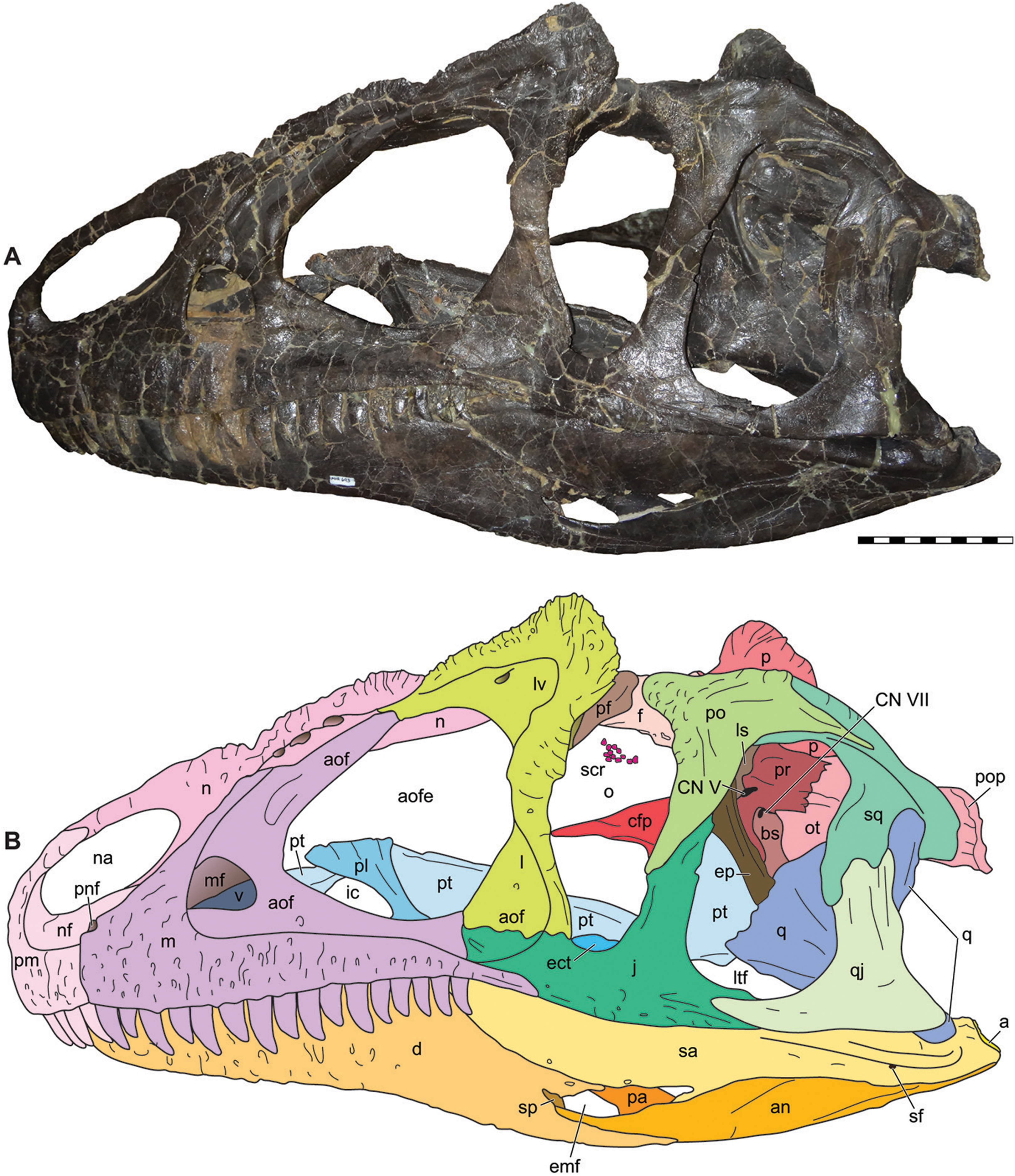 Lateral view of the skull of the referred specimen of Allosaurus jimmadseni (MOR 693). Photograph of the skull (A) in left lateral view and (B) explanatory line drawing. Photo by Mark Loewen. Scale bar equals 10 cm. Osteological abbreviations: a, articular; an, angular; aof, antorbital fossa; aofe, antorbital fenestra; bs, basisphenoid; cfp, cultriform process of the parasphenoid; CN V, trigeminal foramen; CN VII, facial nerve; d, dentary; ect, ectopterygoid; emf, external mandibular fenestra; ep, epipterygoid; f, frontal; j, jugal; l, lacrimal; lv, lacrimal vacuity; ltf, laterotemporal fenestra; m, maxilla; mf, maxillary fenestra; n, nasal; na, naris; nf, narial fossa (external naris); o, orbit; ot, otoccipital; p, parietal; pa, prearticular; pf, prefrontal; pl, palatine; pm, premaxilla; pnf, perinarial fossa; po, postorbital; pop, paroccipital process of the otocippital; pr, prootic; pt, pterygoid; q, quadrate; qj, quadratojugal; sa, surangular; scr, sclerotic ring; sf, surangular foramen; sq, squamosal.